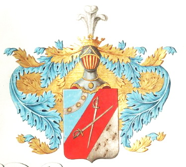 Coat of Arms of Sergey Savelyevich Yakovlev family